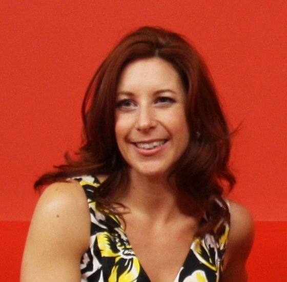 Robin McKelle in the twentieth music festival Fort en Jazz in 2009 in Francheville, France. Personality rights warning Although this work is freely licensed or in the public domain, the person(s) shown may have rights that legally restrict certain re-uses unless those depicted consent to such uses. In these cases, a model release or other evidence of consent could protect you from infringement claims.